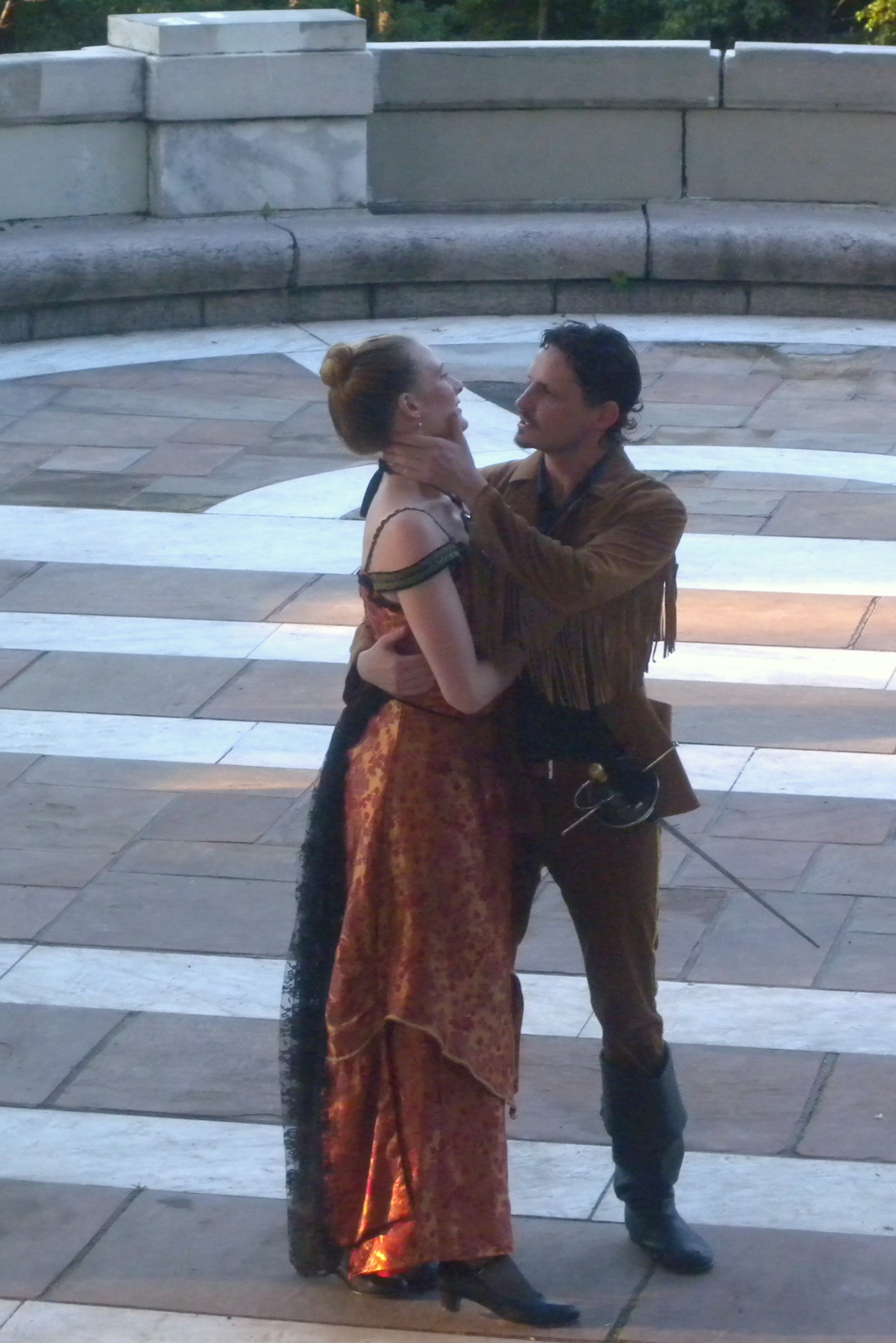 Looking north at performance of "The Rover" on steps of the monument.